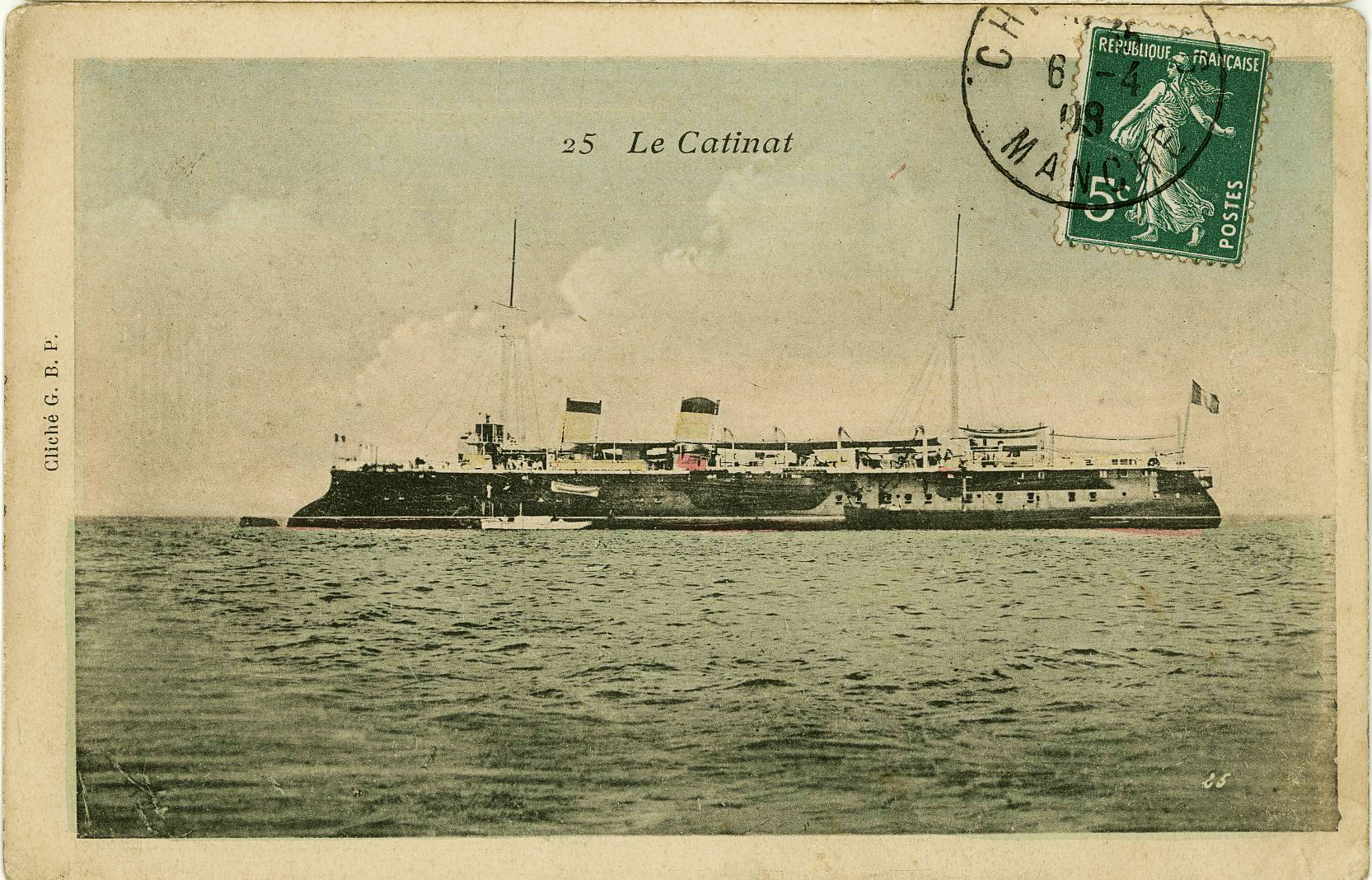 Catinat, protected cruiser, second class, 1896-1911 Built in dockyard : Forges et Chantiers de la Méditérranée, Chantier de Graville, Le Havre. Pacific Division Naval Tx 4065., Long. 101 m, width. 14 m, draft 6.45 m, speed 20 n, cost 8,117,000 F, 80 mm armored deck, Armament: four 164 mm guns, 10 100 mm, 15 guns 2 torpedo tubes. Crew: 24 officers and 384 men